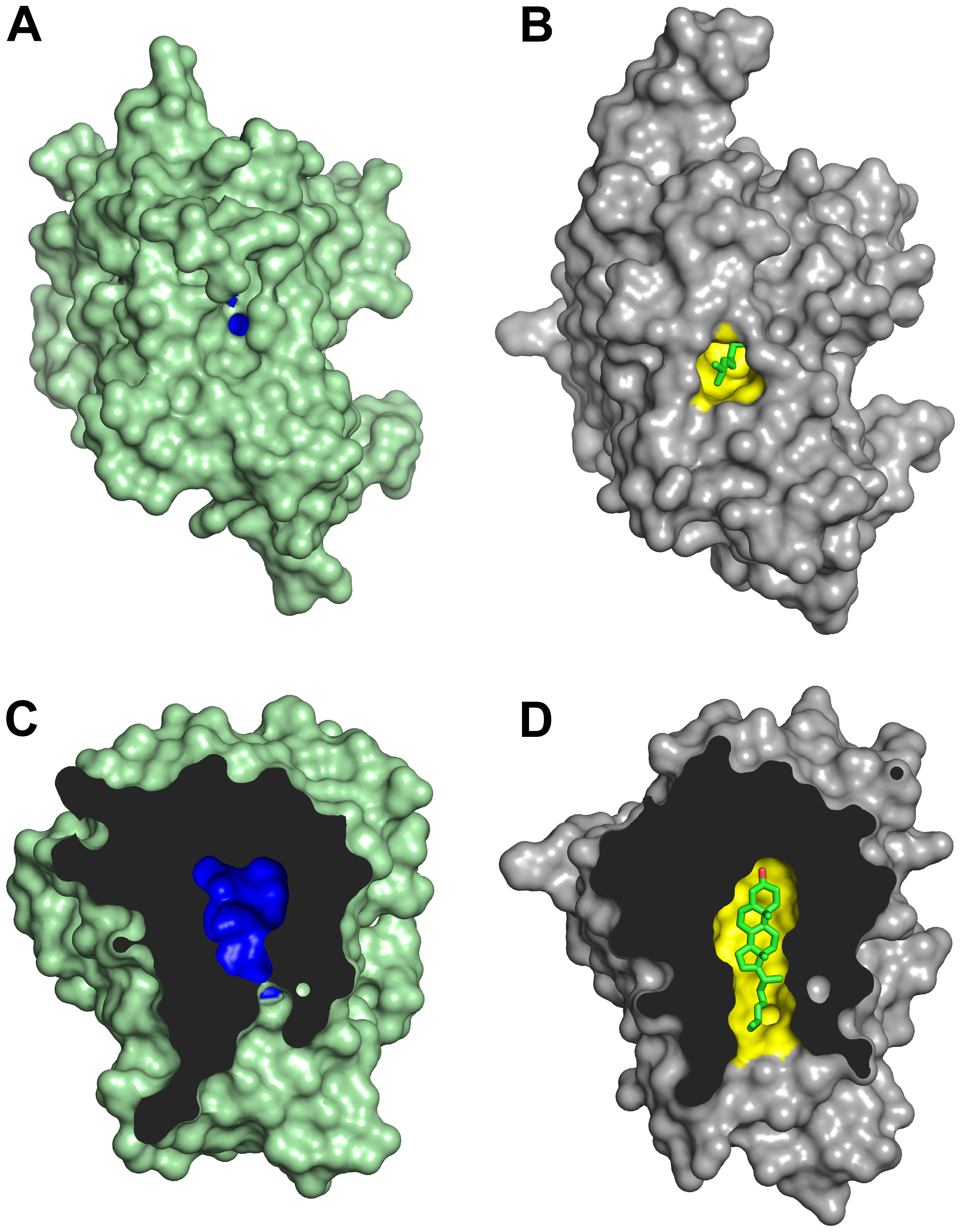 NPC1L1(NTD) in a closed conformation. (A) The surface of NPC1L1(NTD), colored green, reveals a cholesterol binding pocket (blue) that is closed to solvent. (B) The surface of NPC1(NTD), colored gray, shows the cholesterol binding pocket (yellow) exposed to solvent. The isooctyl side chain of cholesterol (stick model in green) is visible and solvent exposed. (C) Cutaway view of the cholesterol binding pocket of NPC1L1(NTD) in the closed conformation. (D) Cutaway view of the cholesterol binding pocket of NPC1(NTD) in an open conformation.